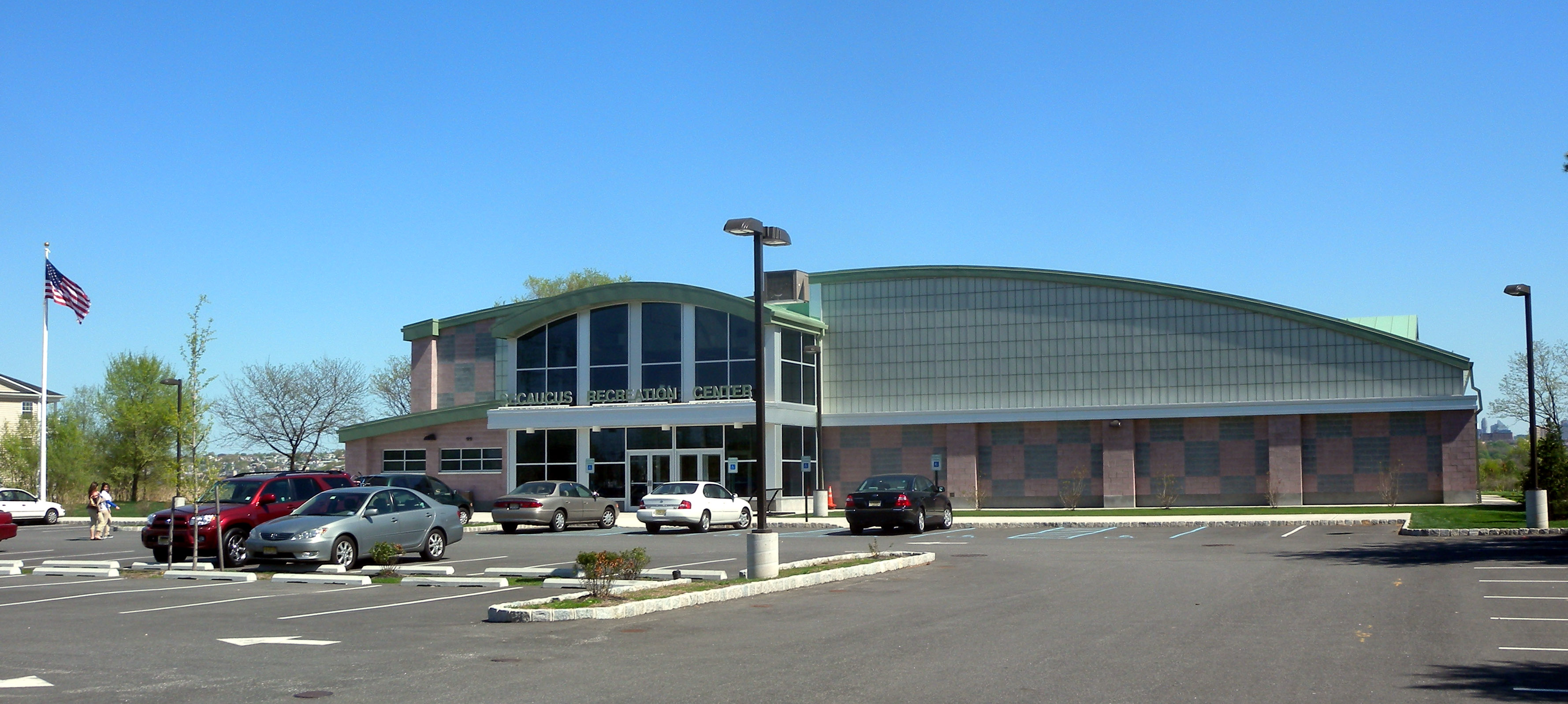 Looking northeast at Recreation Center on a sunny midday. EXIF location is incorrect due to photographer's error.